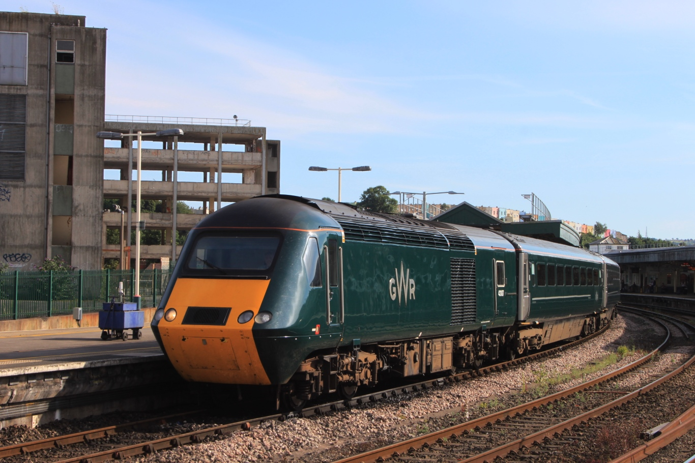 A Great Western Railway high speed train with power car 43187 at Bristol Temple Meads station.